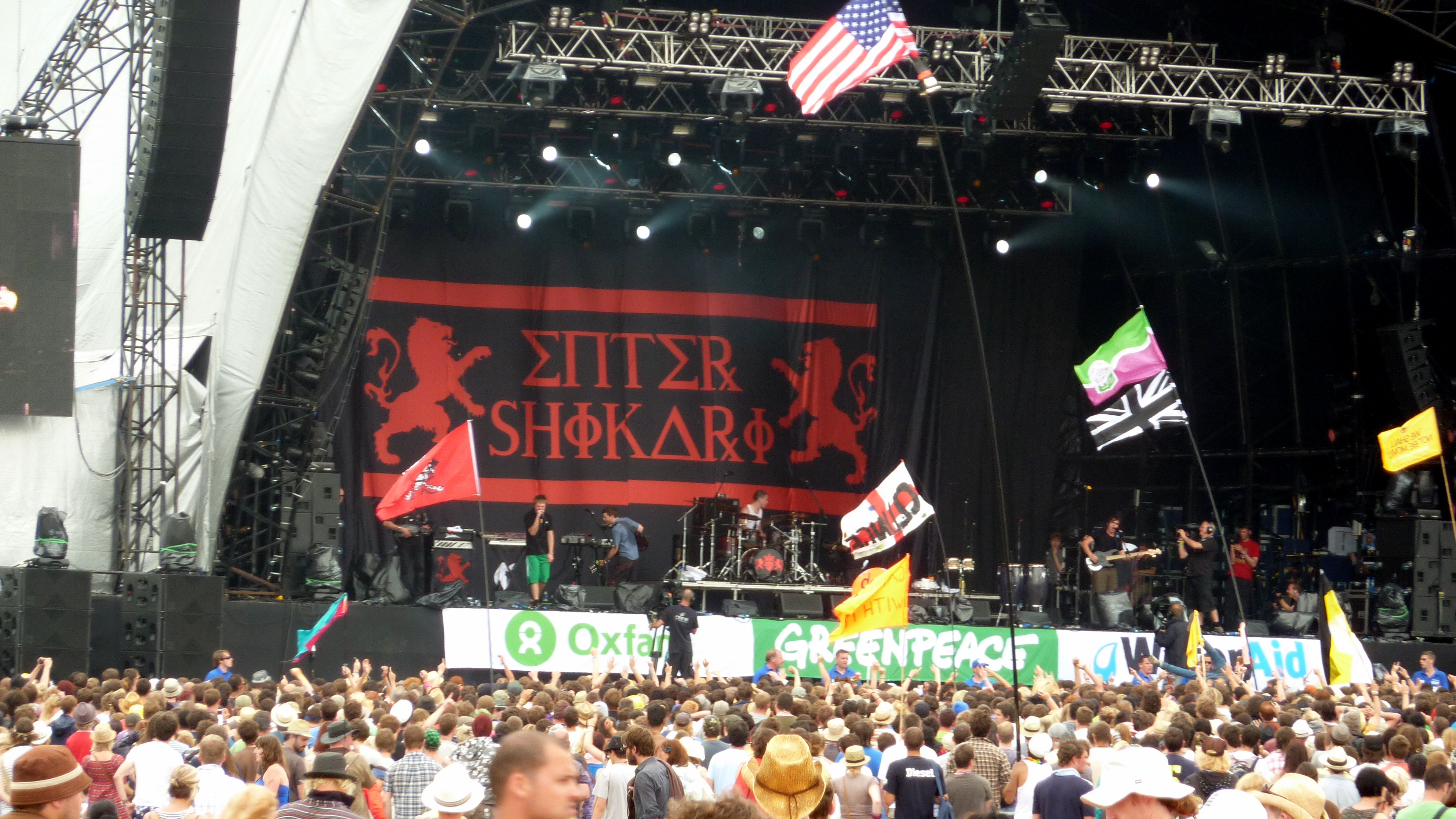 British band Enter Shikari live in 2009, UK